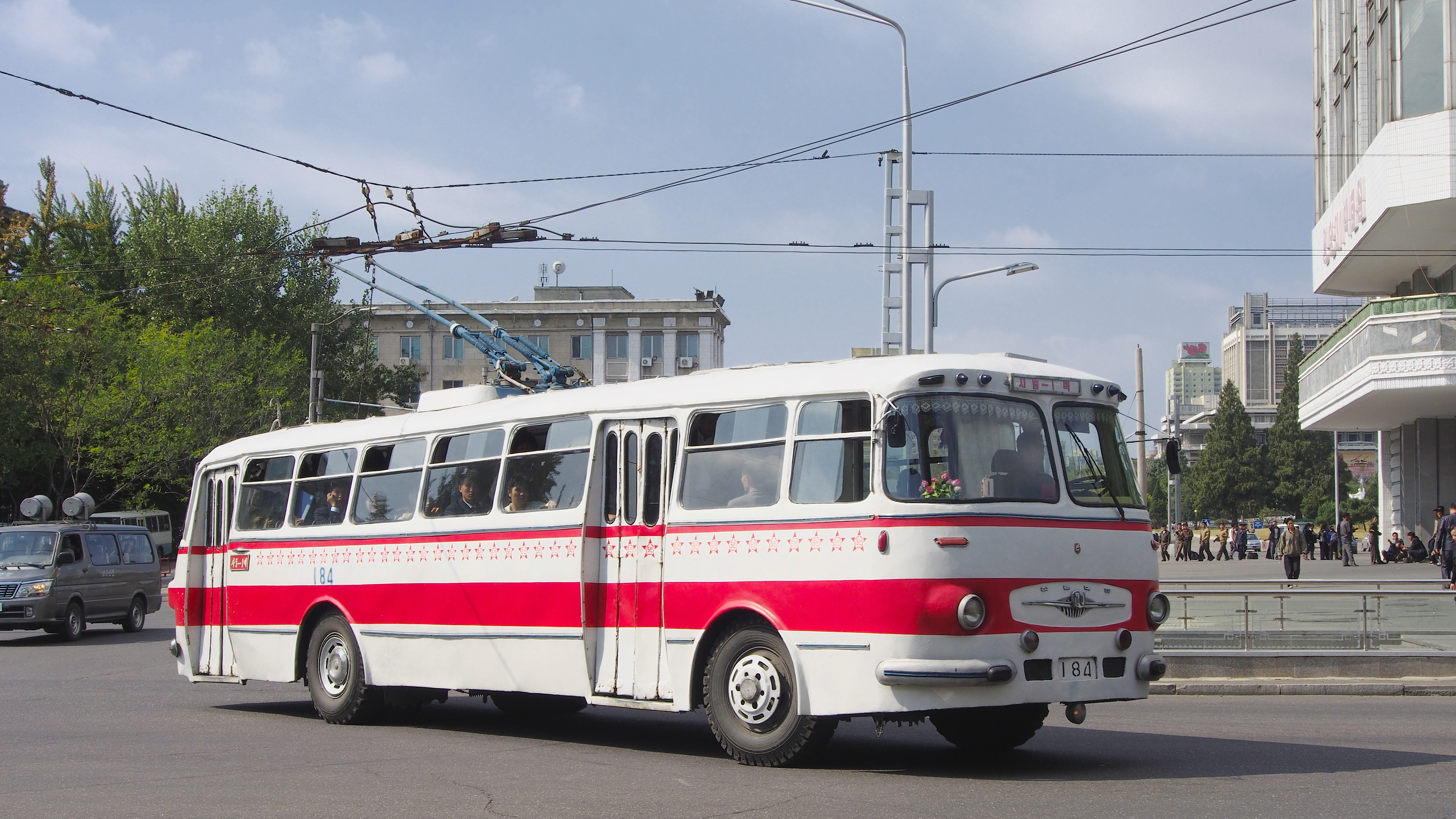 Pyongyang trolleybus 184 is a restored Chollima-70 type.